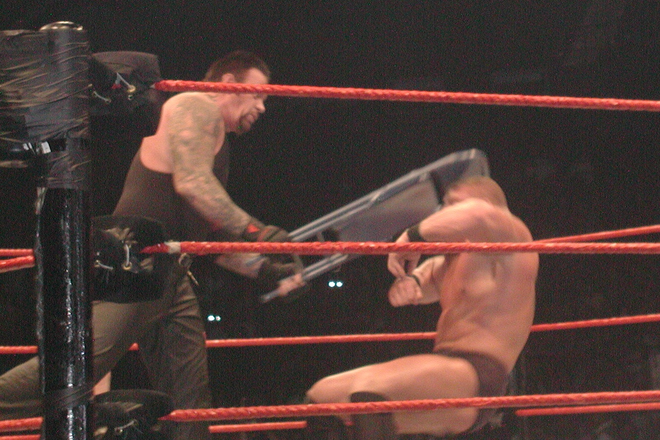 The Undertaker with a chair shot on Brock Lesnar. Allstate Arena, Rosemont, September 12002.